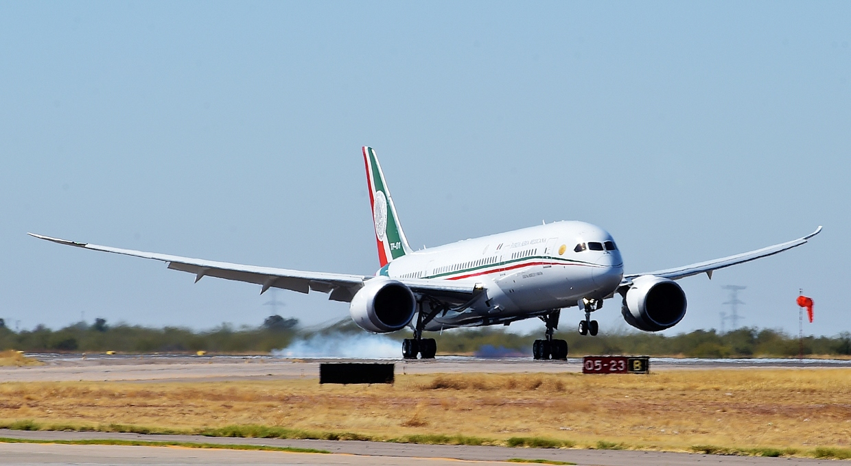 Fuerza Aérea Mexicana, Boeing 787-8 Dreamliner, XC-MEX (cropped)